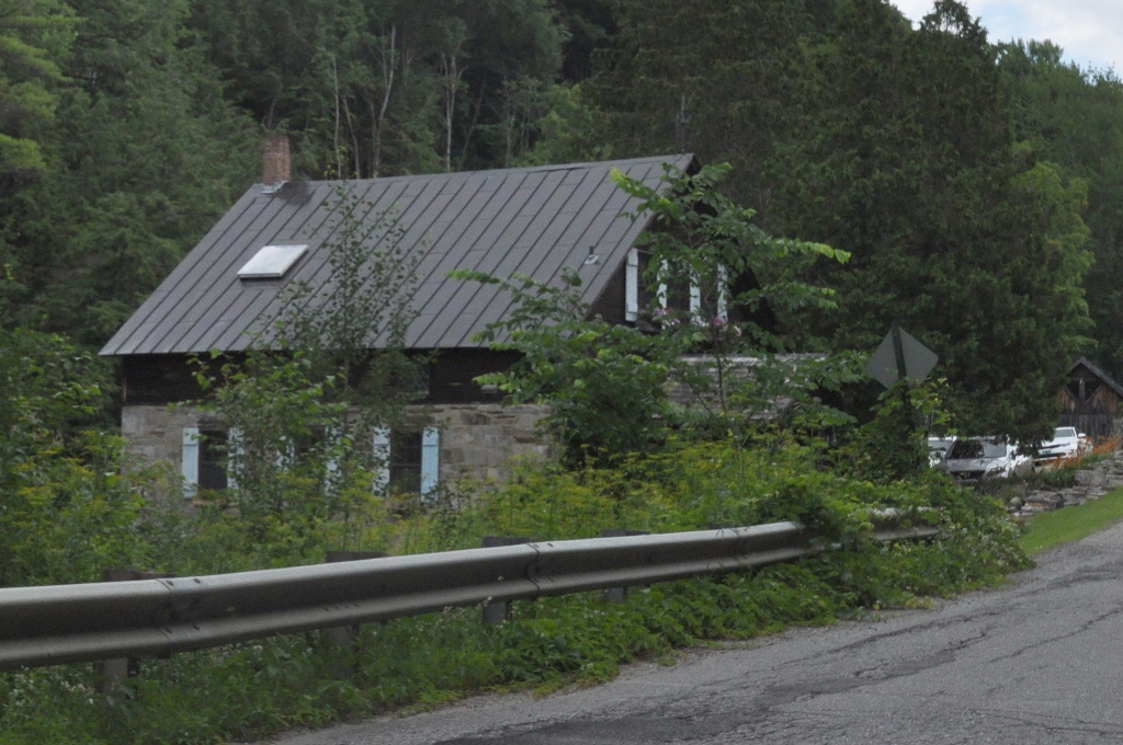 Hoag Gristmill and Knight House Complex, Starksboro, Vermont. The former Hoag Gristmill, now a residence.